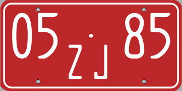 Cuba 1974-1978 Government/Municipal license plate. Computer drawing.